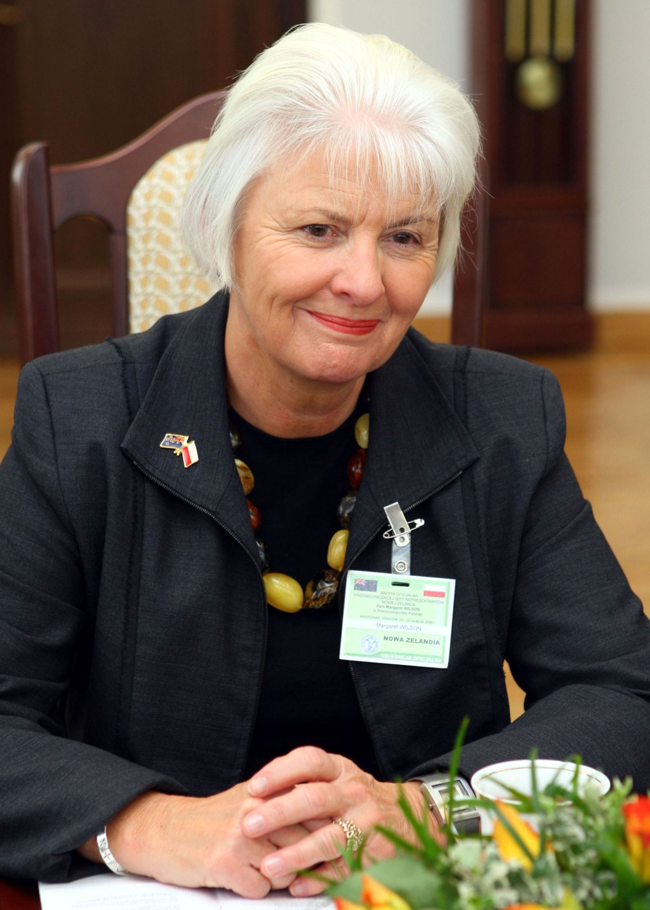 Speaker of the New Zealand House of Representatives Margaret Wilson in the Polish Senate